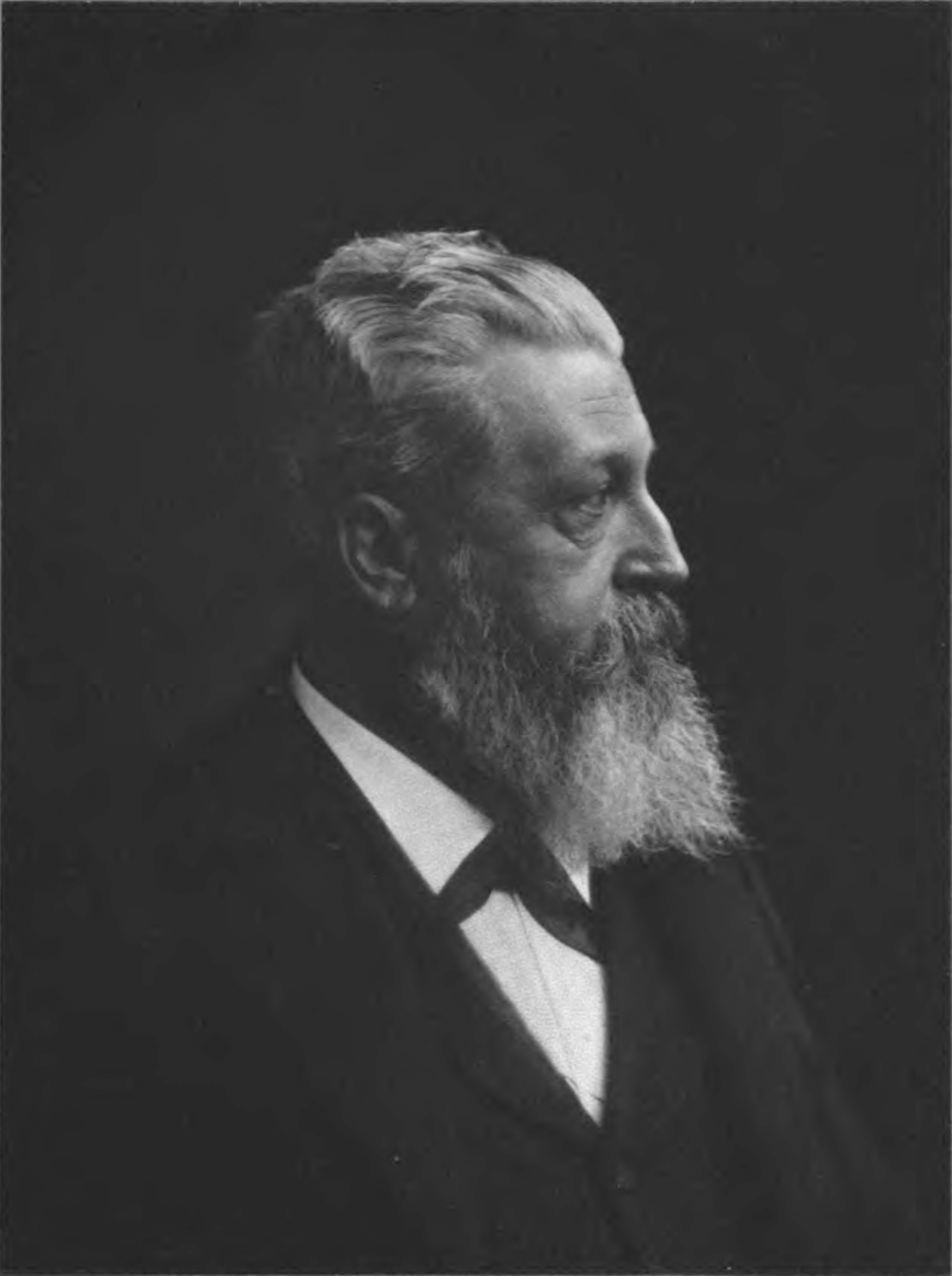 Josef Tautenhayn (1837-1911), Austrian sculptor and medal engraver